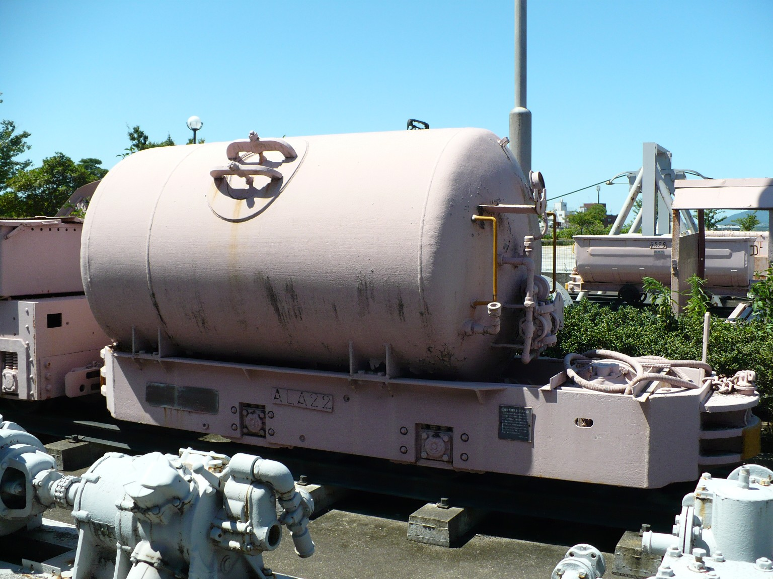 compressed air locomotive preserved in Tagawa city coal-mining museum, Fukuoka prefecture Japan